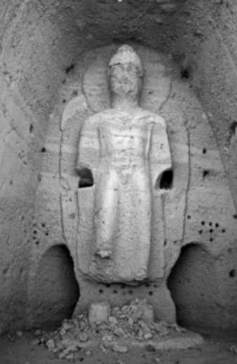 The Buddha of Kakrak